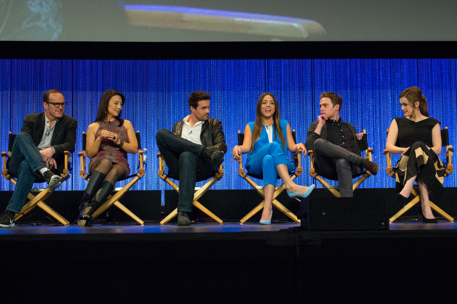 Cast of the TV show Agents of S.H.I.E.L.D. at PaleyFest 2014. From left: Clark Gregg, Ming-Na Wen, Brett Dalton, Chloe Bennet, Iain De Caestecker and Elizabeth Henstridge